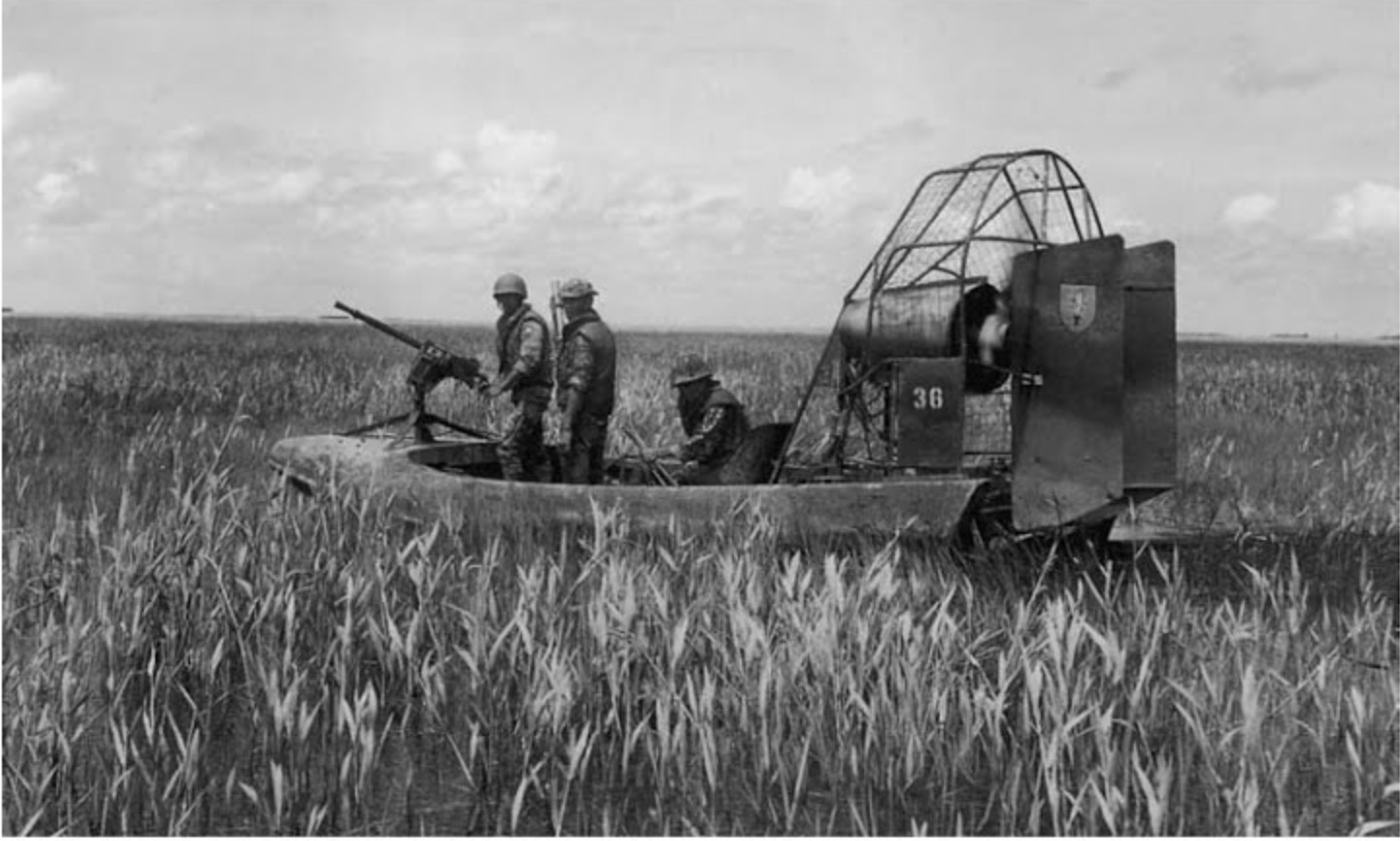 A Hurricane Aircat airboat of the US Special Forces Mobile Strike Force Command (MIKE Force) in Vietnam. This Aircat is carrying a standard special forces crew of operator, gunner, and grenadier/radio operator